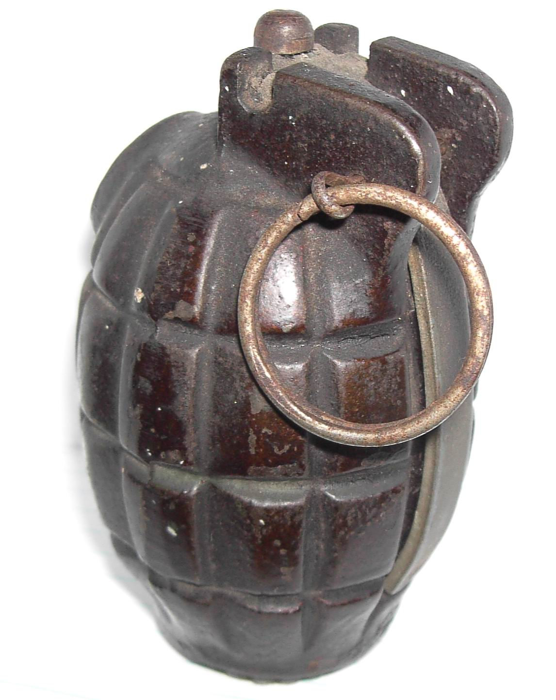 Mills bomb N°36, dating from 1942.